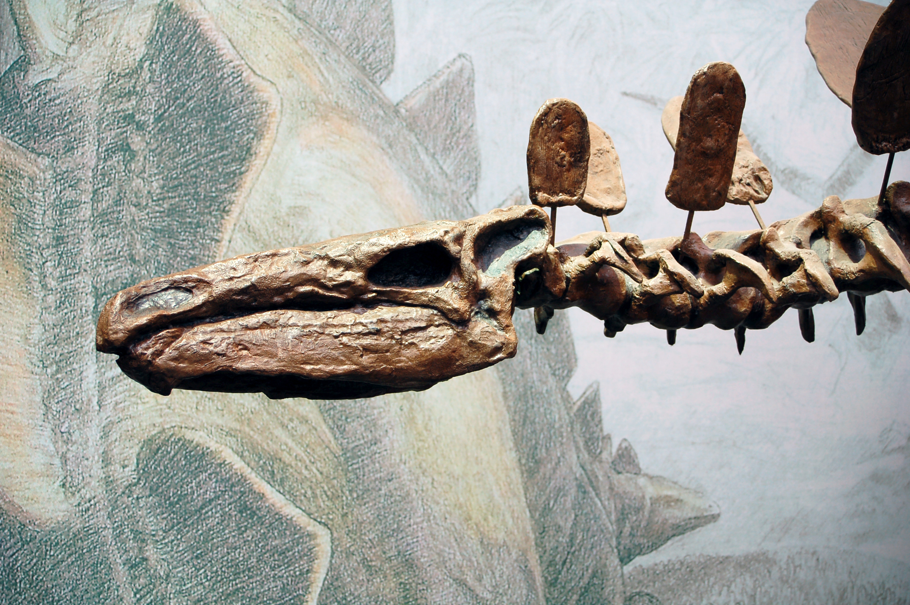 Reconstruction of a Stegosaurus skeleton in the Senckenberg Museum in Frankfurt am Main